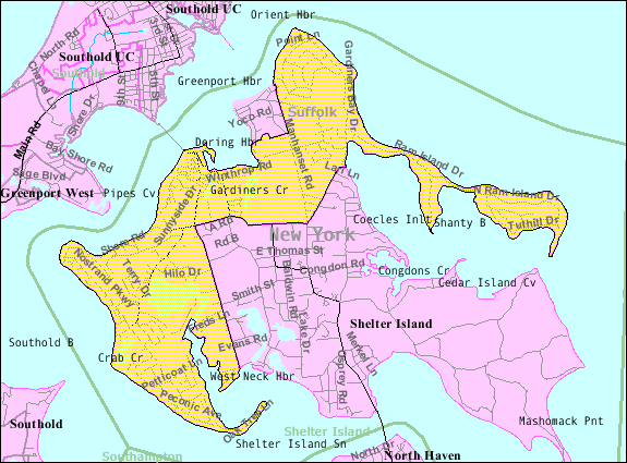 U.S. Census 2000 reference map for Shelter Island Heights